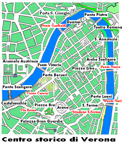 Map of the center of Verona, with special reference to historical landmarks